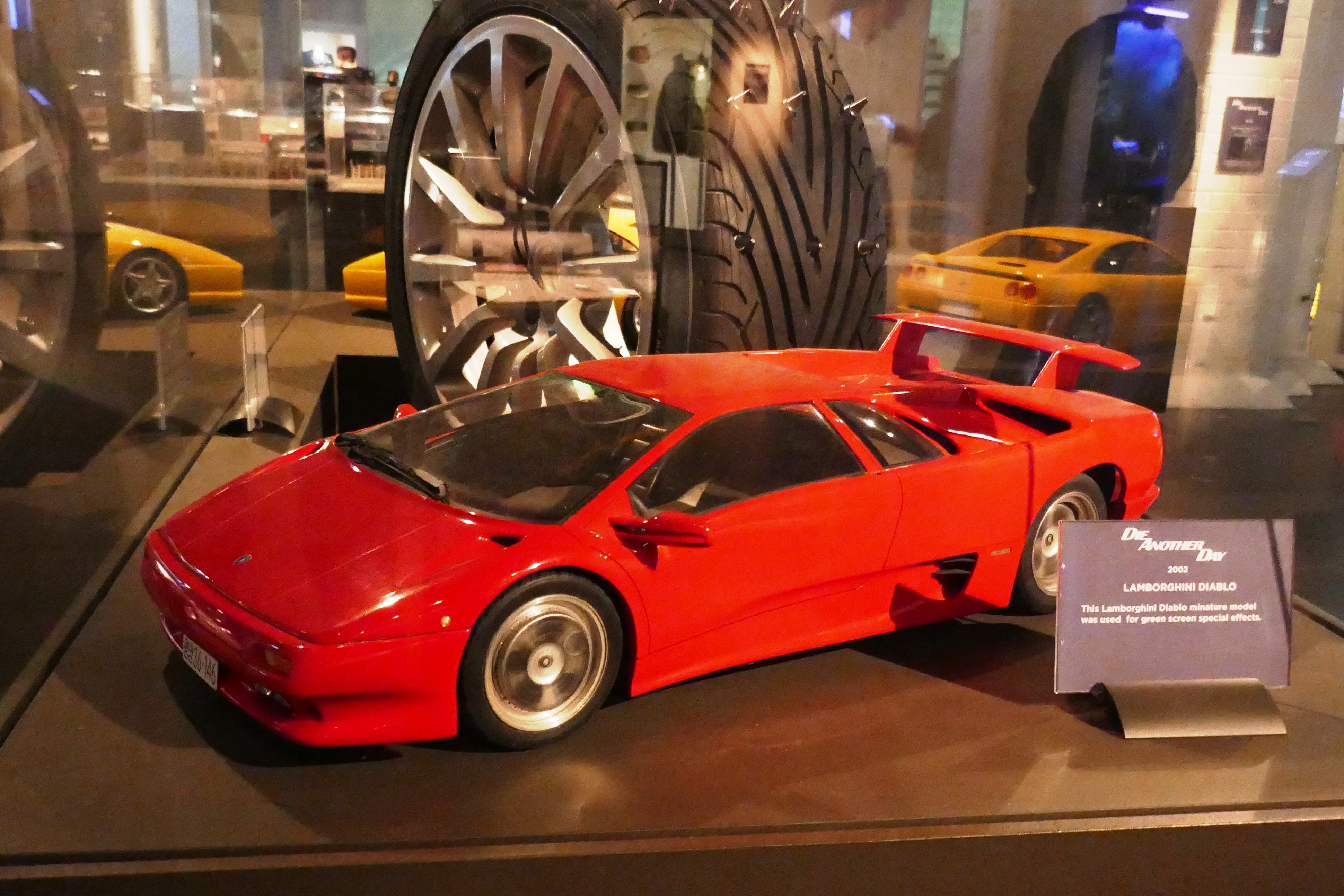 Lamborghini Diablo Miniature used on green screen for VFX in the movie "Die Another Day" National Film Museum, London - Bond in Motion Exhibition (2017)